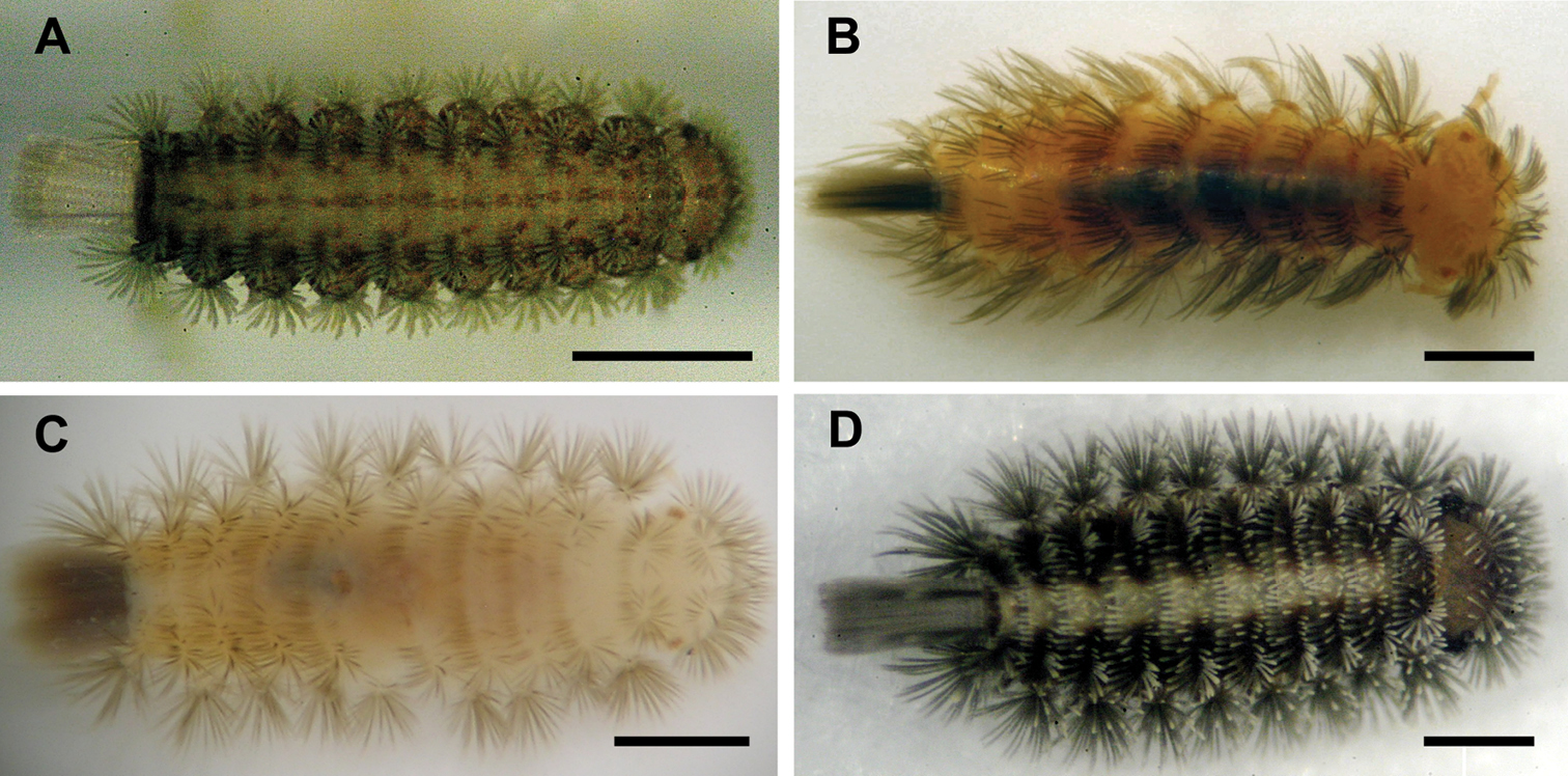 Four species of Unixenus from Australia. A. Unixenus attemsi; B. Unixenus mjoebergi; C. Unixenus karajinensis; D. Unixenus corticolus. Scale bars = 0.5 mm.